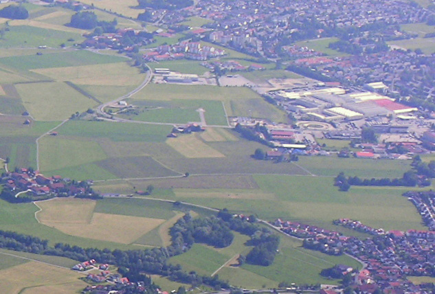 Aerial photograph of the Fendt manufacturing plant and headquarters in Marktoberdorf, Bavaria, Germany (view from south-west near Leuterschach; the Fendt area is visible on the right side)